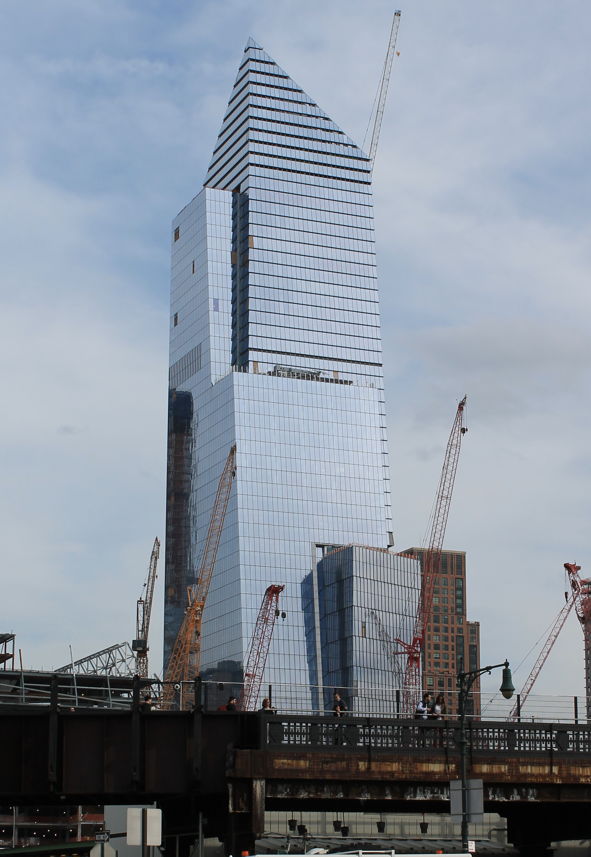 10 Hudson Yards from Hudson River Park. Taken on 31 March 2016.